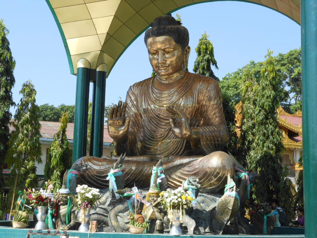 Image of Mindfulness and Wisdom